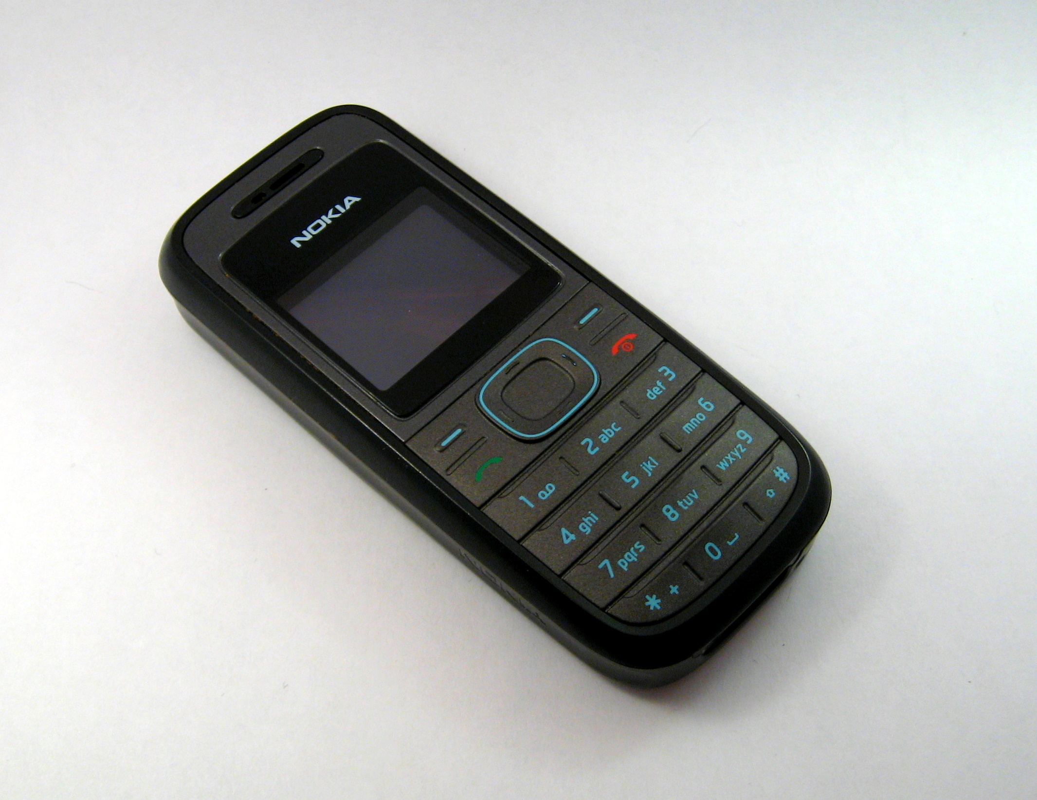 Nokia 1208 cell phone